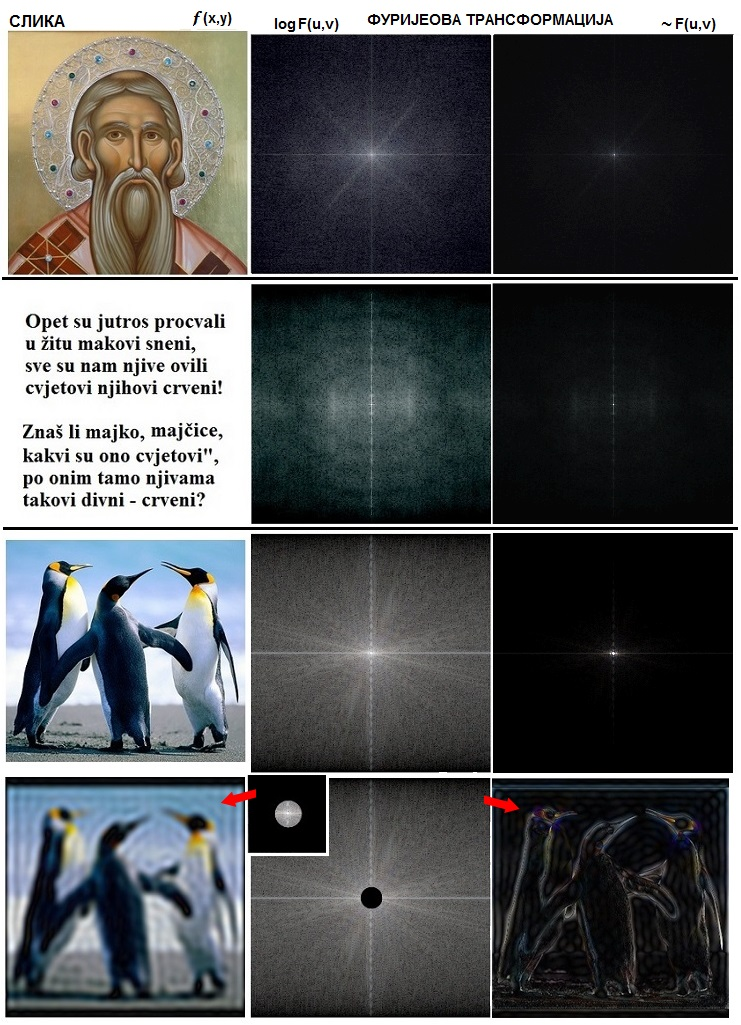 ФУРИЈЕОВА ТРАНСФОРМАЦИЈА СЛИКЕ